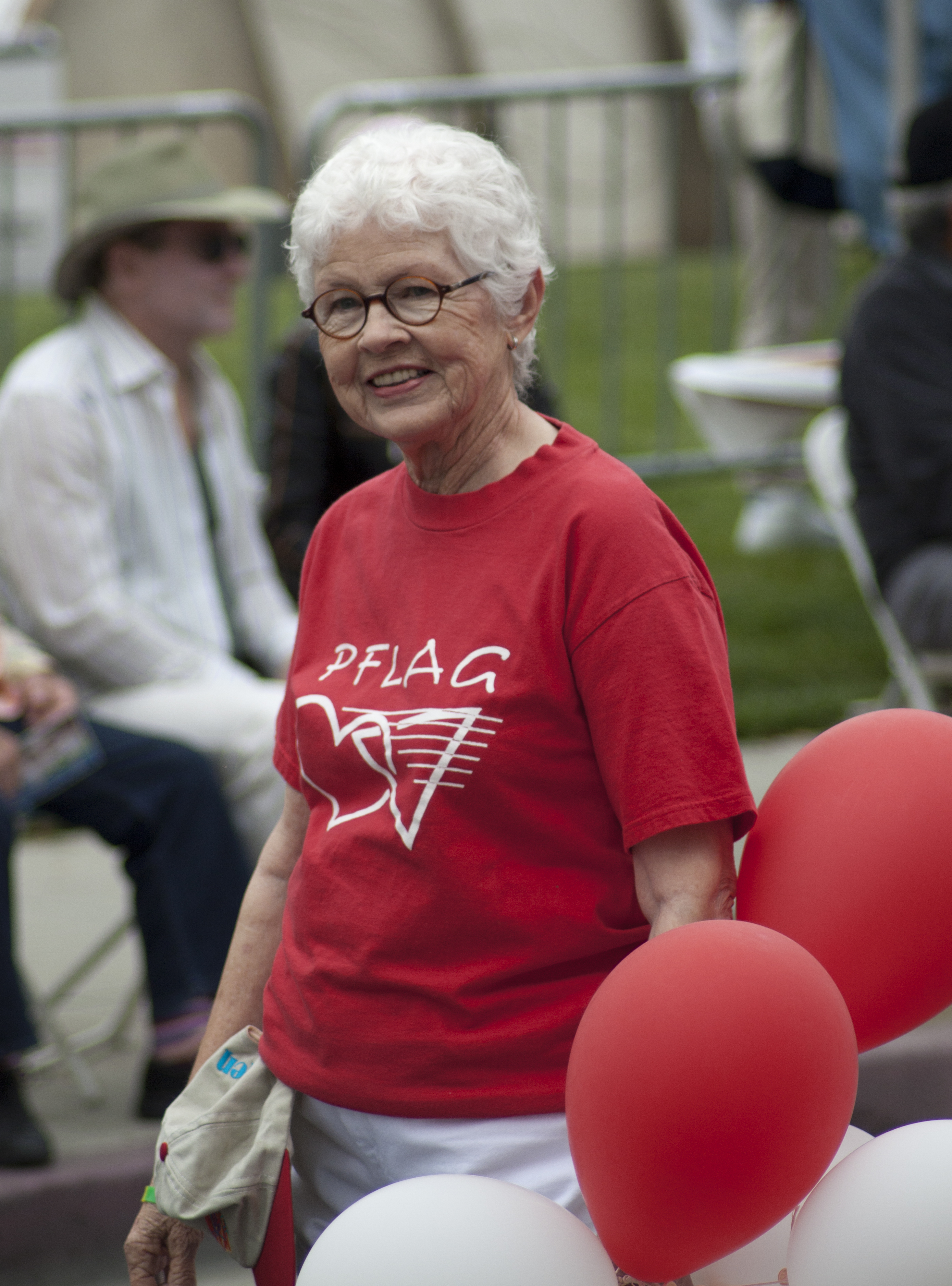 Betty DeGeneres at LA Pride 2011 (June 12)